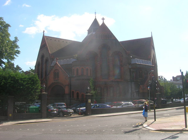 AIR Studios, Lyndhurst Road, London NW3; formerly Lyndhurst Road Congregational Church